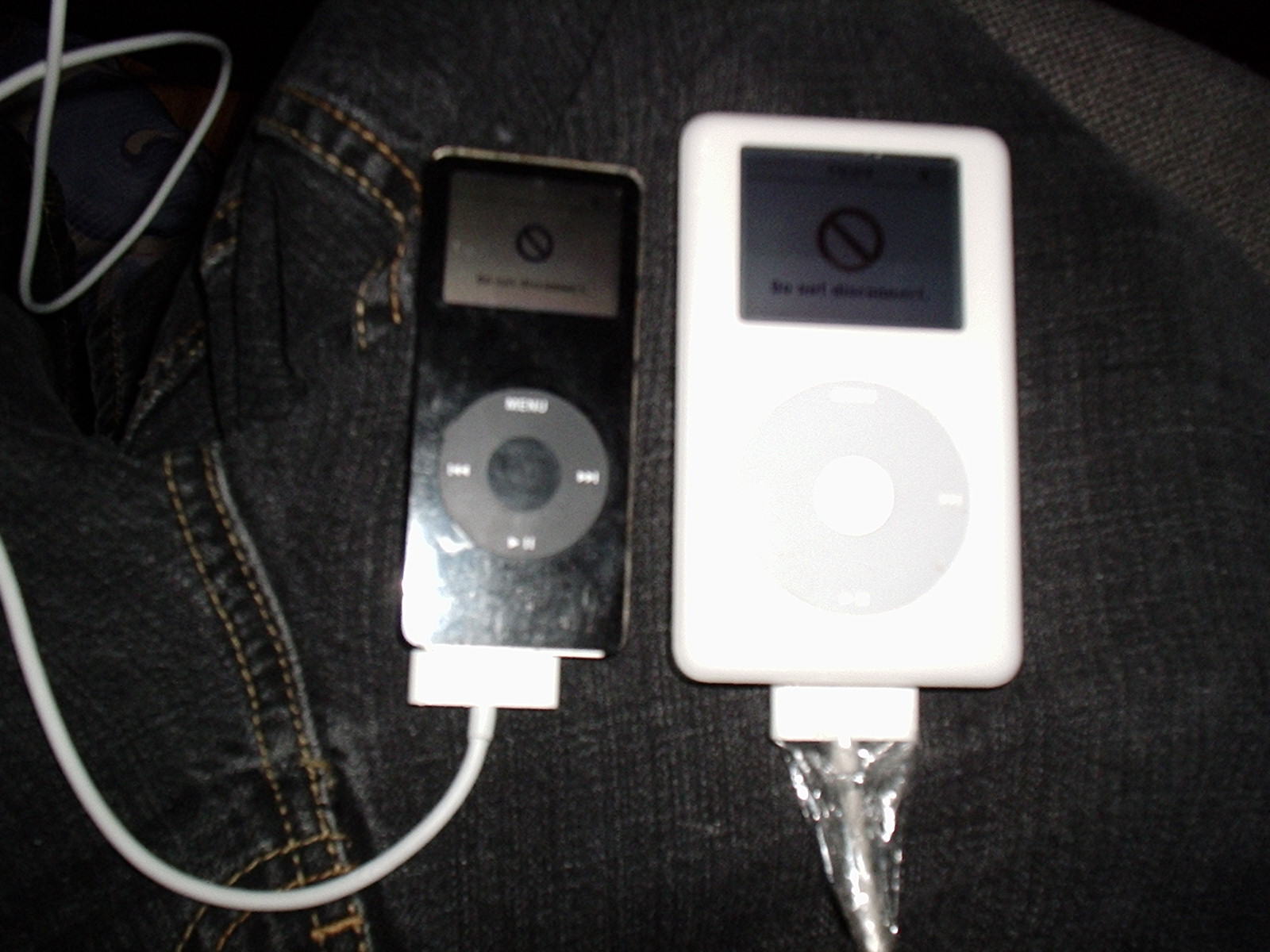 iPod Nano 4GB & iPod Classic 4G 20GB on Rockbox.